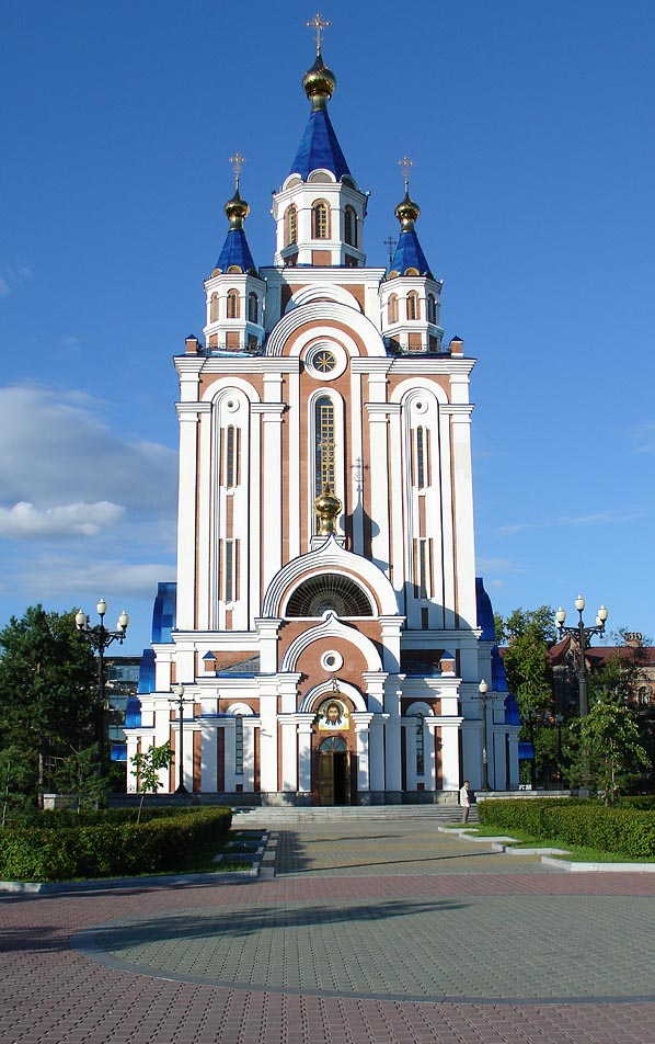 Khabarovsk Cathedral